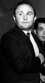 Jorge Jacobson- periodista argentino